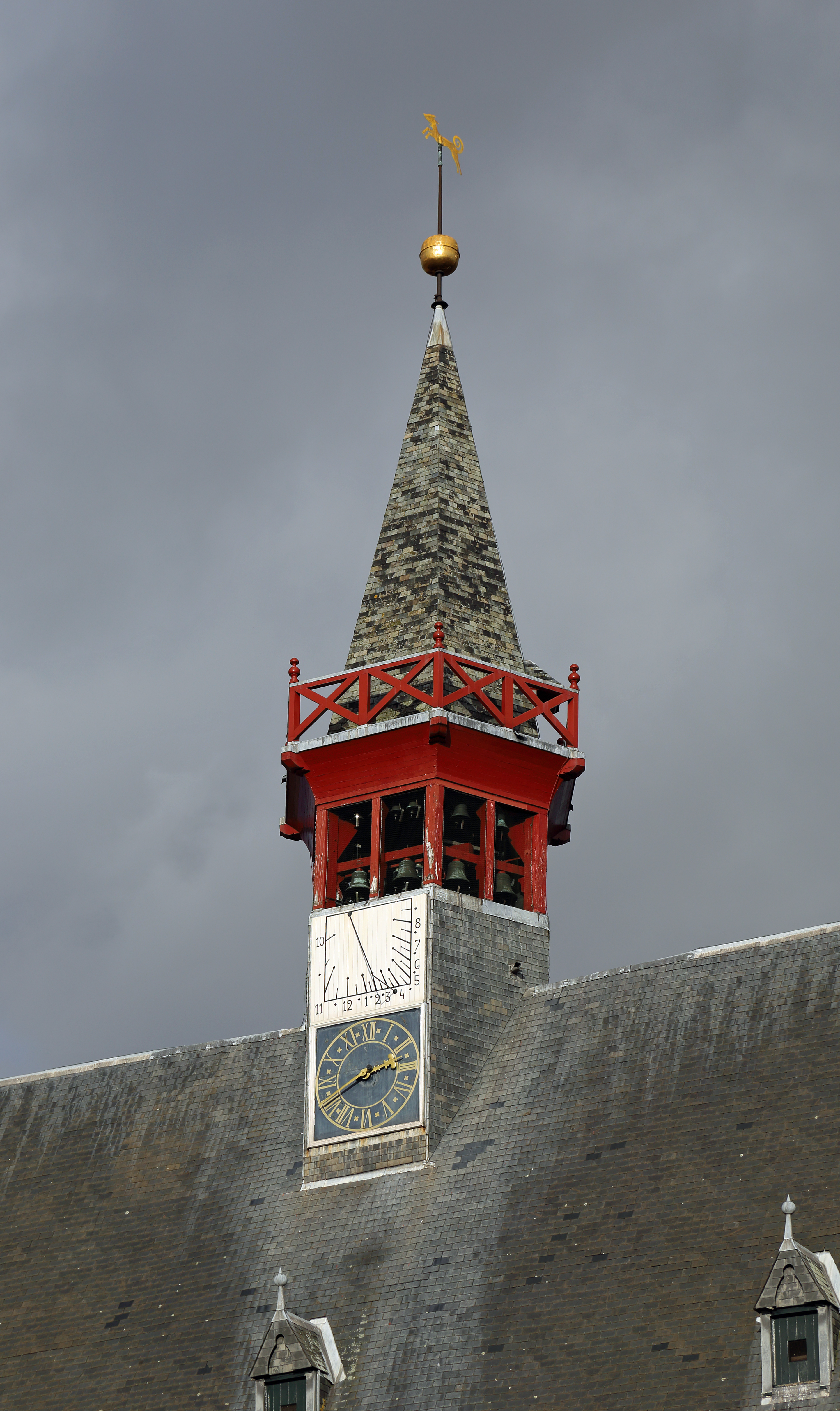 Damme (Belgium): town hall - detail: rood-turret with carillon